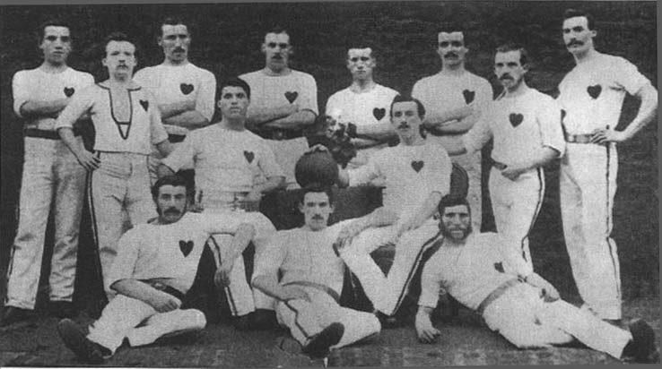 The Hearts team in 1875. Wearing original all white kit